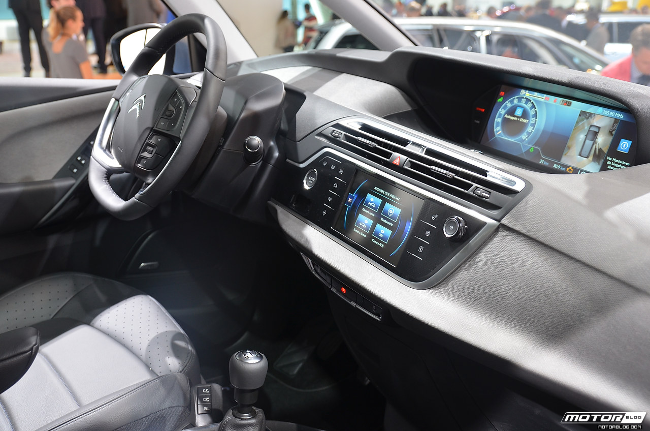 IAA Frankfurt 2013: Citroen C4 Grand Picasso / Photo: Raphael Jahn ______________________ Please feel free to use this image for FREE under the Creative Commons (CC) licence. However, if you use the image, pls set a backlink to and give credit as following: "Image: ". For highres images or any other inquiries pls contact mailto: . Thanks.